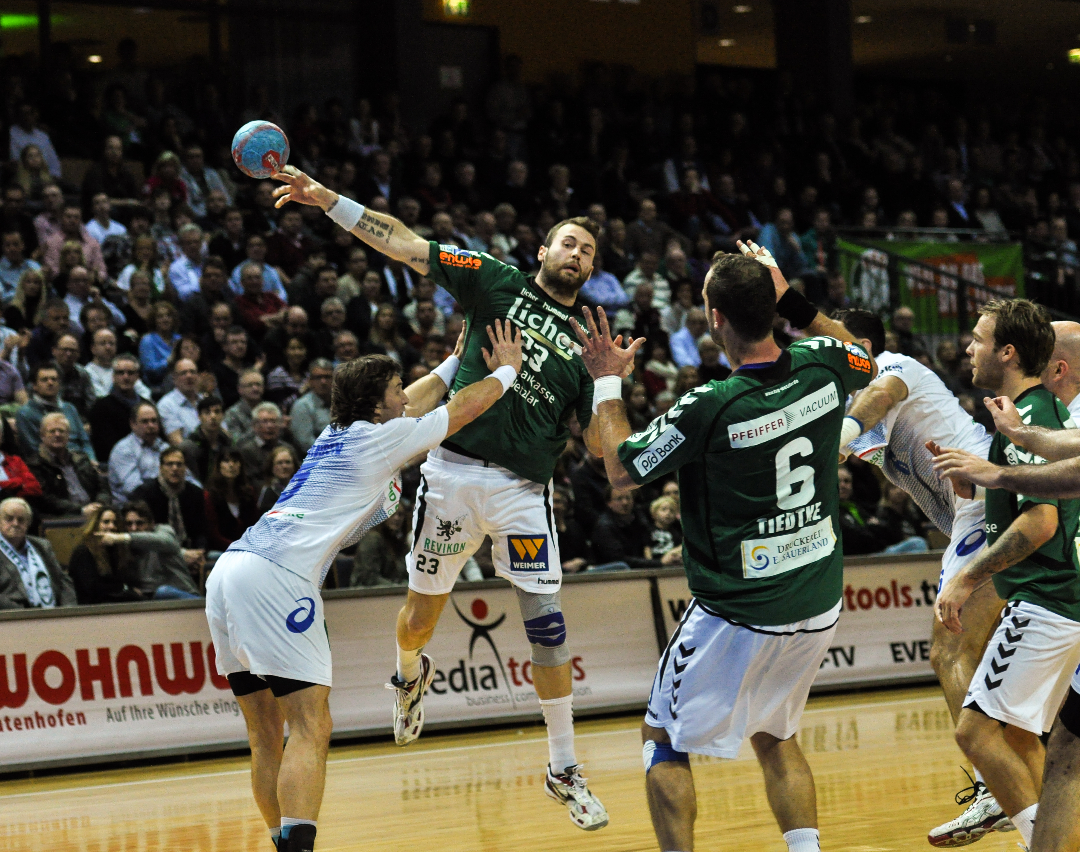 taken on February 8, 2014 during DKB Handball-Bundesliga match between HSG Wetzlar and HSV Hamburg